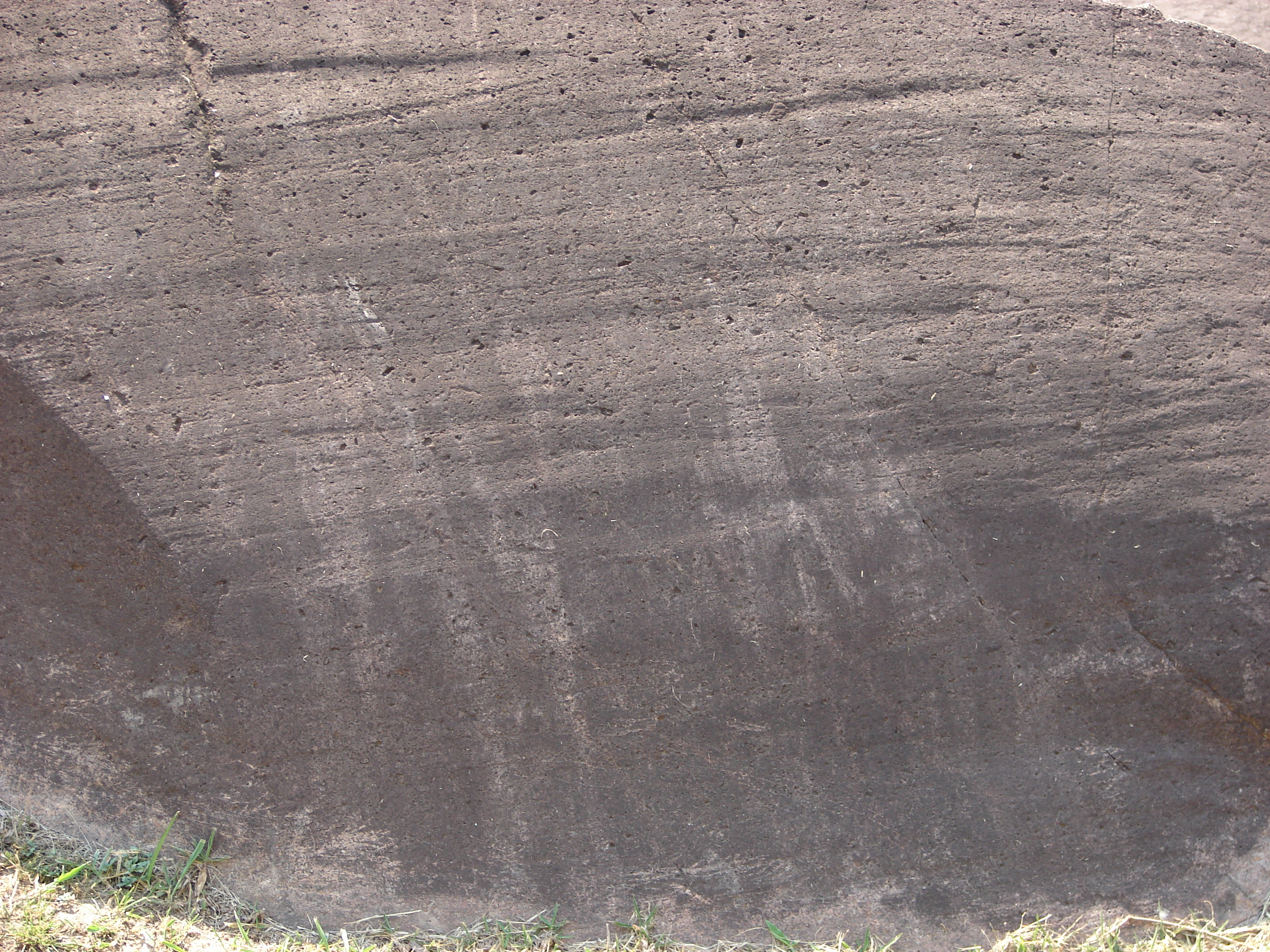 Striated granite by the glacial abrasion